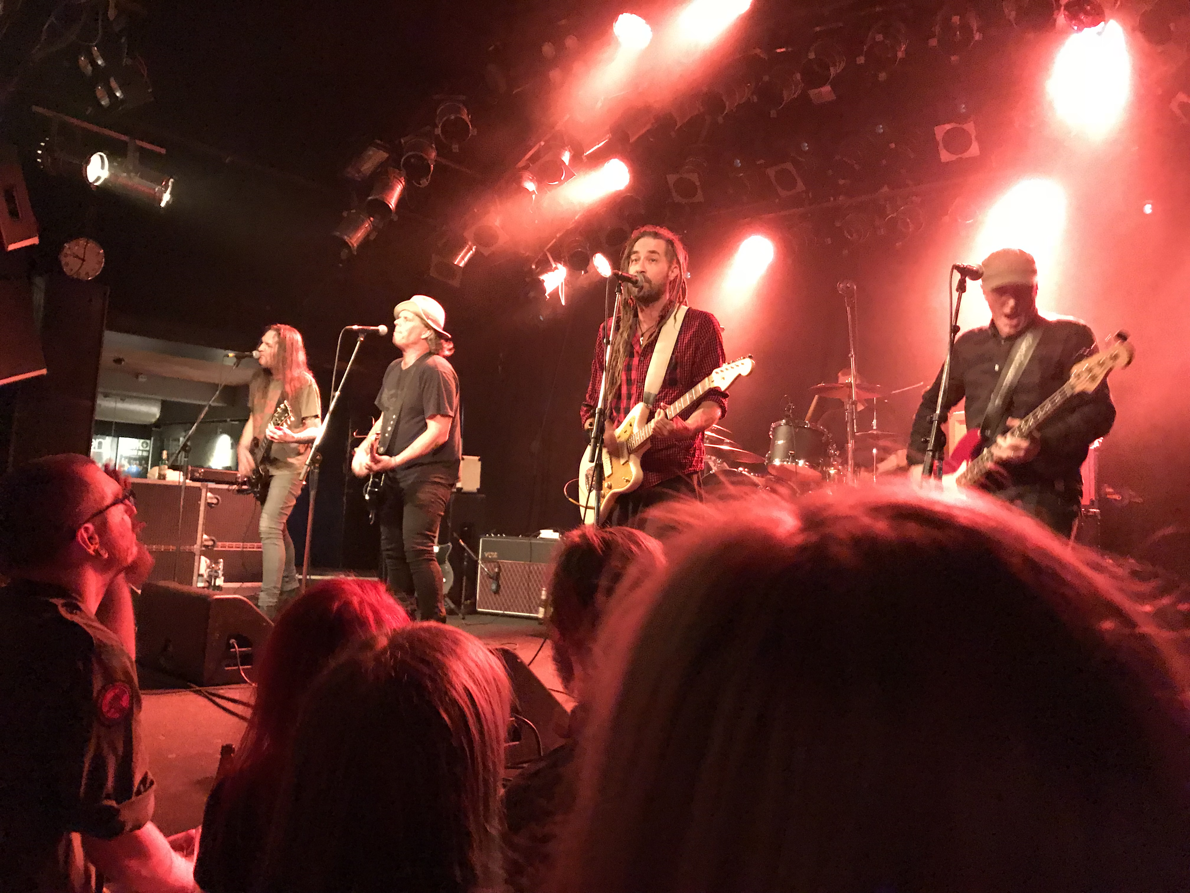 Swedish punk supergroup Krymplings on stage at Kulturbolaget in Malmö, 13 October 2017. From the left: Mikael "Ulke" Johansson, Curt "Curre" Sandgren, Per Granberg, Stefan "Mongo" Enger. In the background: Martin "Mart" Hällgren.